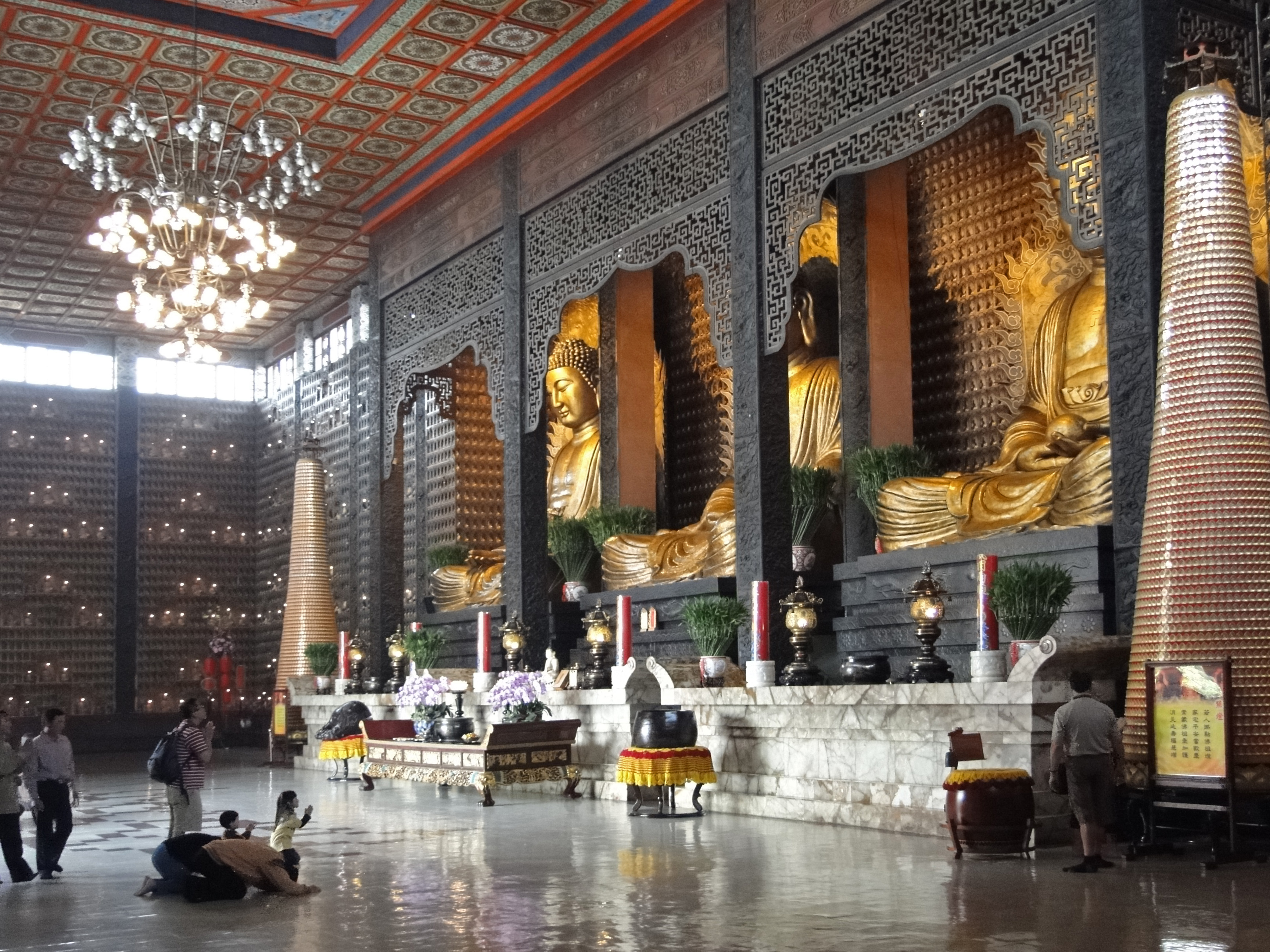 Interior of th main sanctuary of Fo Guang Shan Monastery, Taiwan